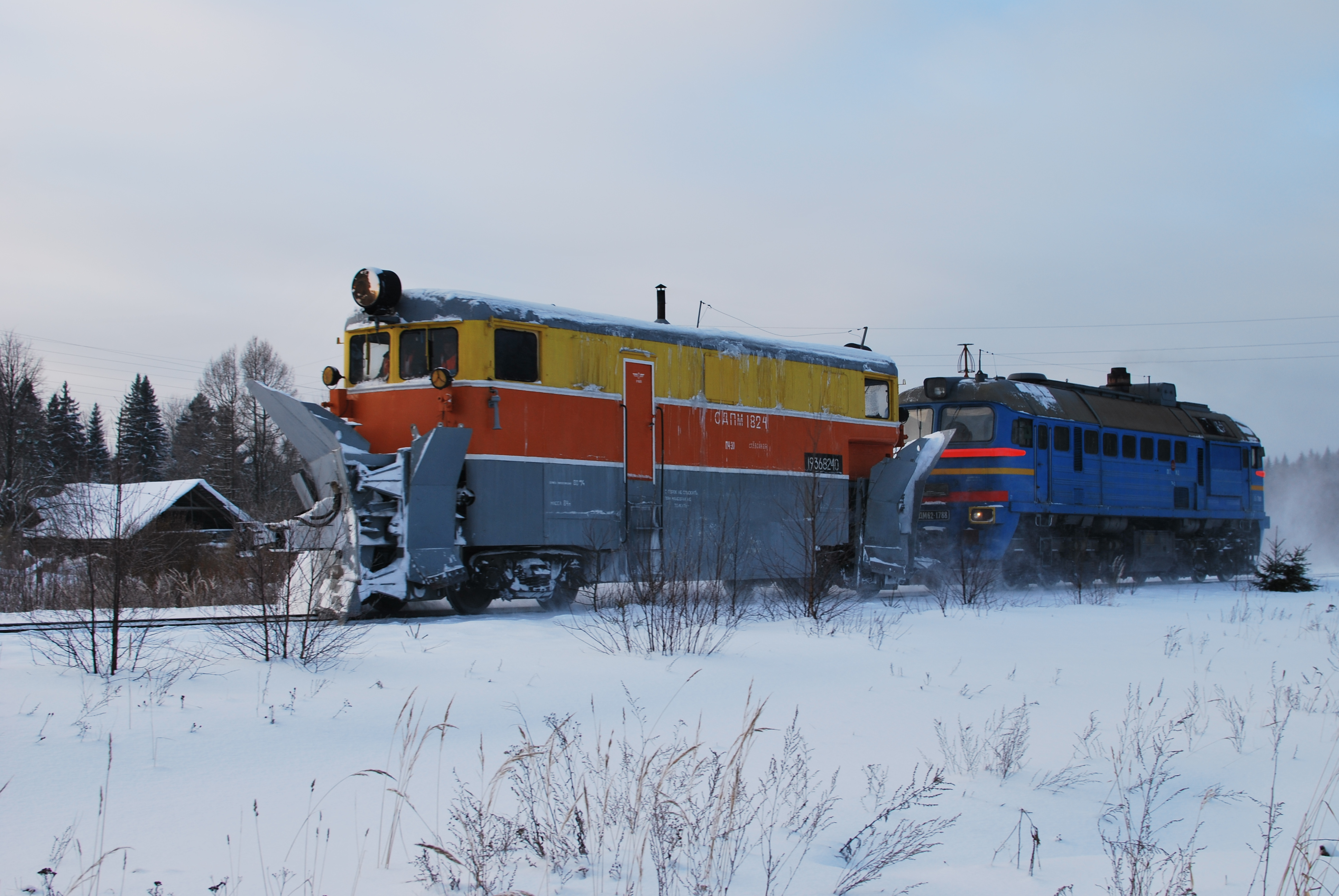 SDPM snowplow near Hotsy railway halt, Novgorodskya oblast